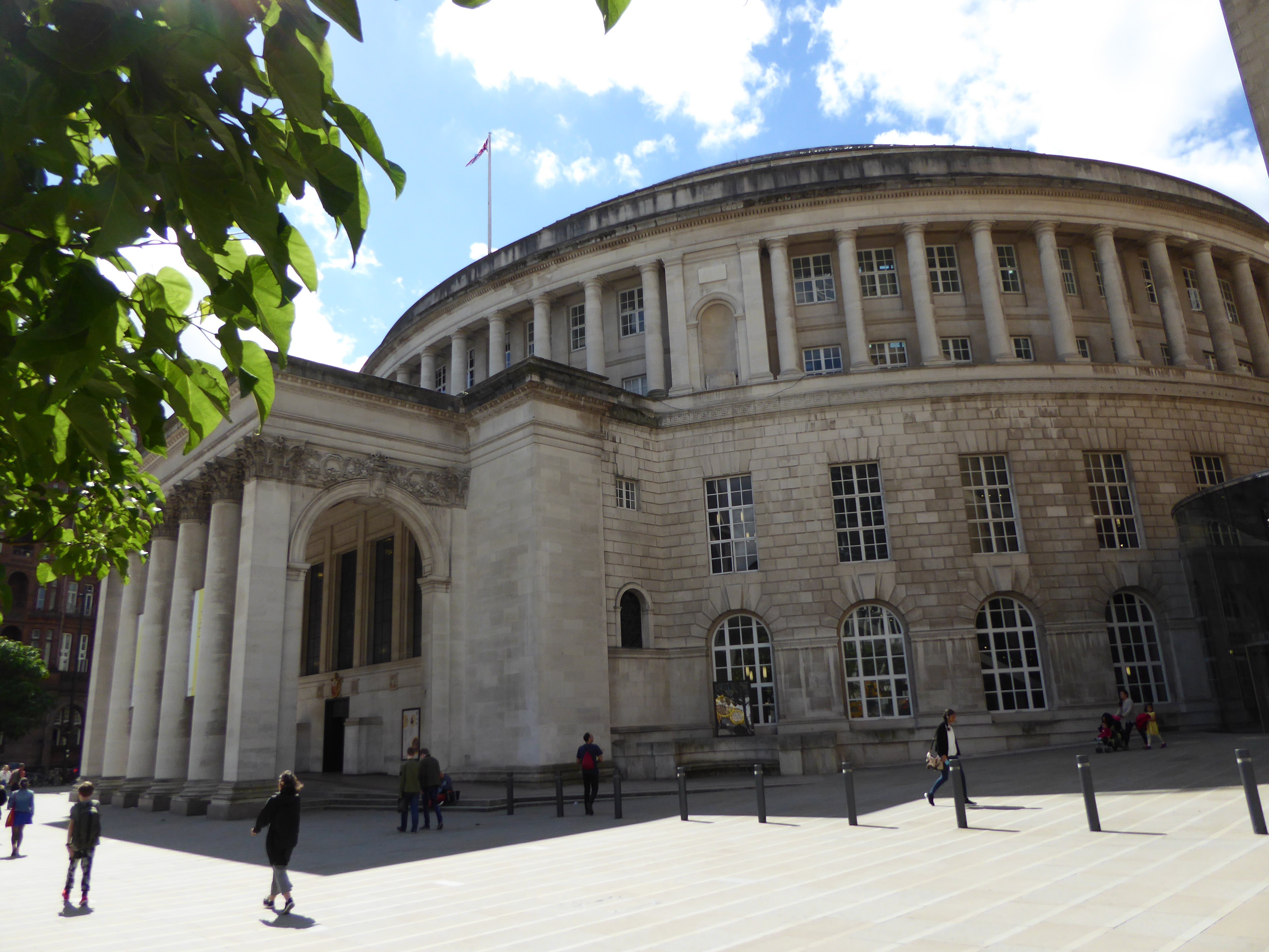 Manchester Central Library, St Peters Square, Manchester, Greater Manchester, England, July 2016